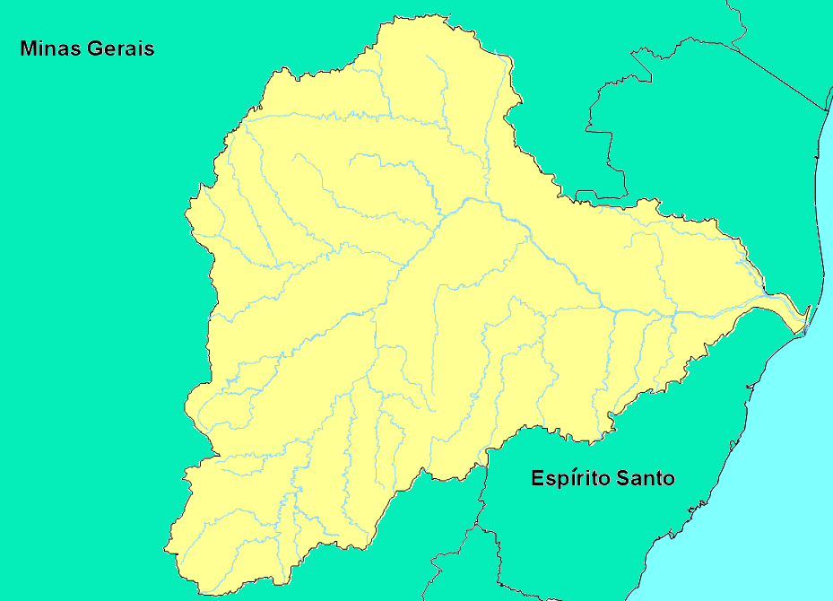 Map of the Doce River Basin - Brazil.